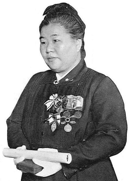 Shigeko Honma (Florence Nightingale Medal recipient)